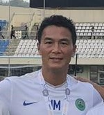 Head Photo